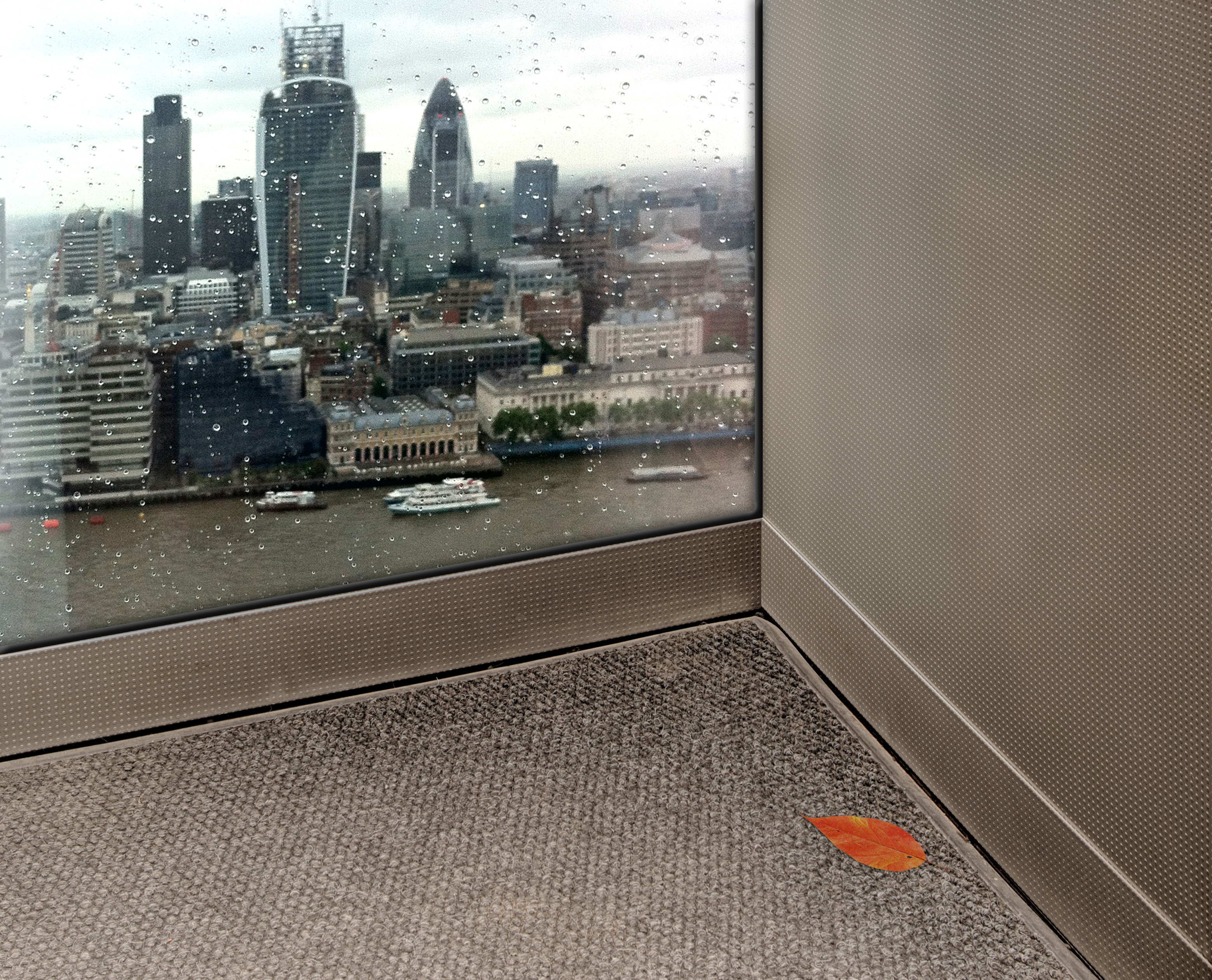 Elevator virtual window